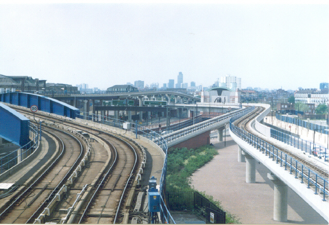 Poplar. D.L.R. trackwork.